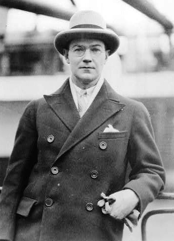 Philip Barry, half-length portrait, standing, facing front